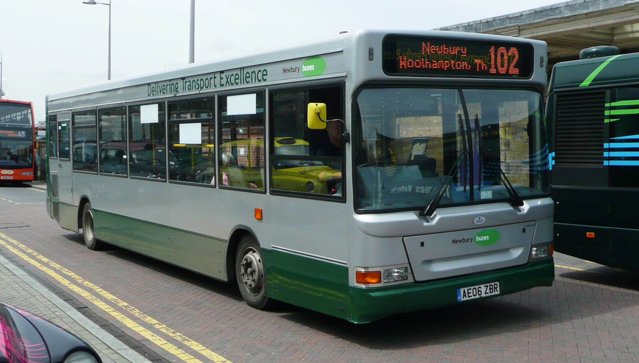 Reading Transport 608 (AE06 ZBR), a Dennis Dart SLF/Plaxton Pointer, in Reading on route 102 to Newbury, run by Newbury depot under the Newbury buses name.